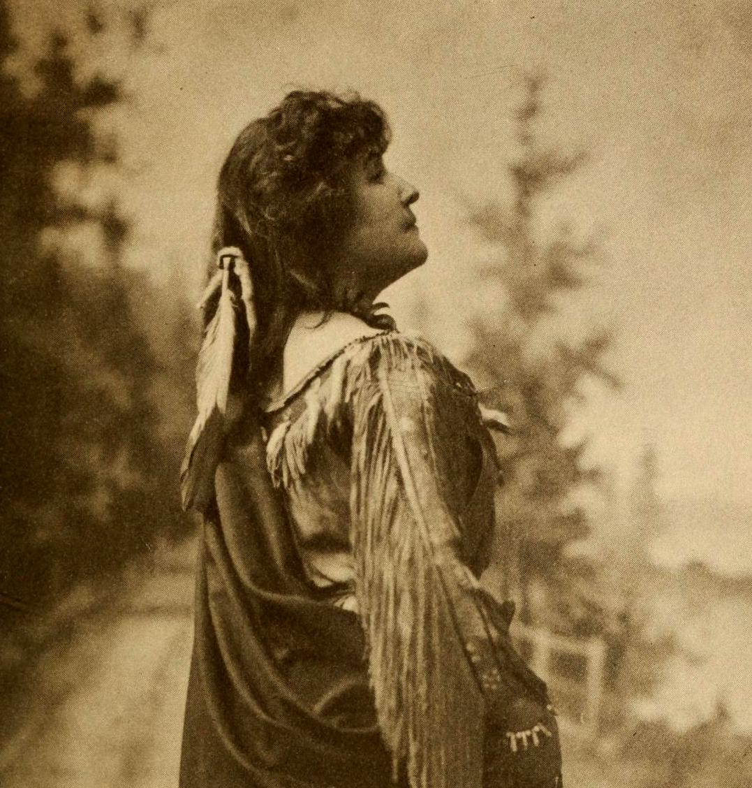 Portrait of the poet and writer Pauline Johnson (1861-1913) which appeared in a posthumous publication of her poem "And he said 'Fight on'".